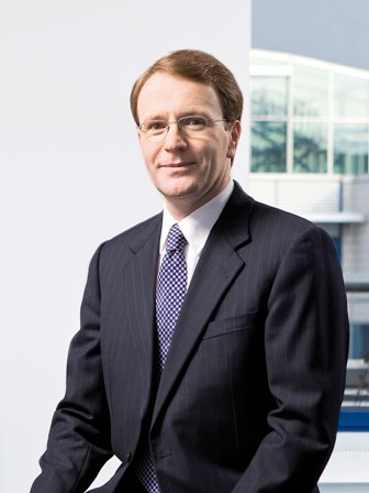 Ulf Mark Schneider, CEO of Fresenius SE